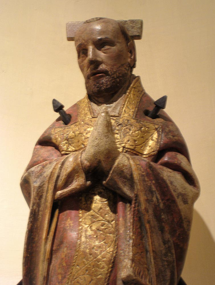 sculpture of St. Benignus of Dijon / torso, view frontal from below material: earthenware or stone, painted size: ca. 50 cm exhibition: Dijon Cathedral, above the entrance of the crypt patron saint of the cathedral